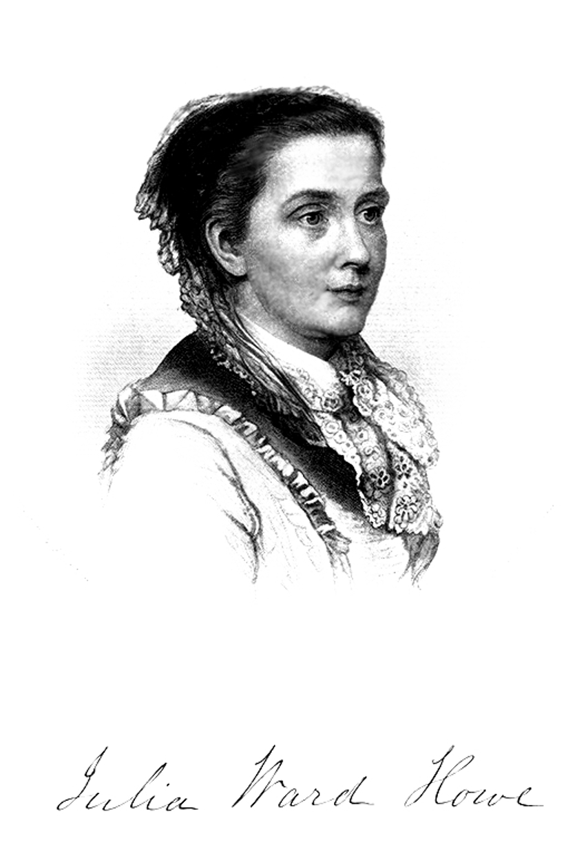 Image of Julia Ward Howe as it appears on page 793 of Volume 2 of the History of Woman Suffrage, which was published in 1887.